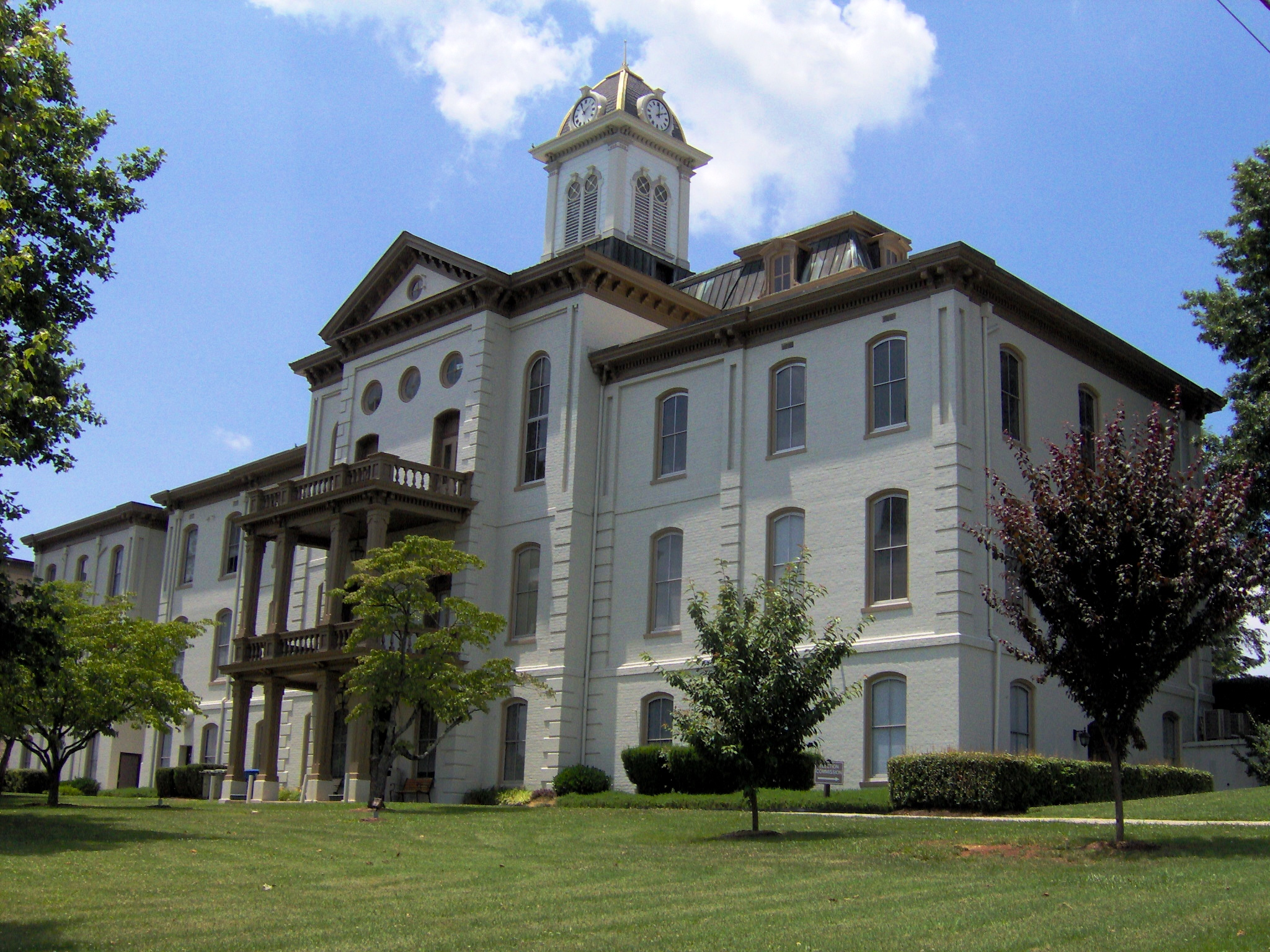 Hamblen County Courthouse in Morristown, in the U.S. state of Tennessee. The courthouse, completed in 1874 (four years after the county was formed), was built on land donated by G.W. Barnett, George Folsom, D. Morris, and John Murphey. The building was expanded in the mid-1950s, and renovated in the late 1960s.